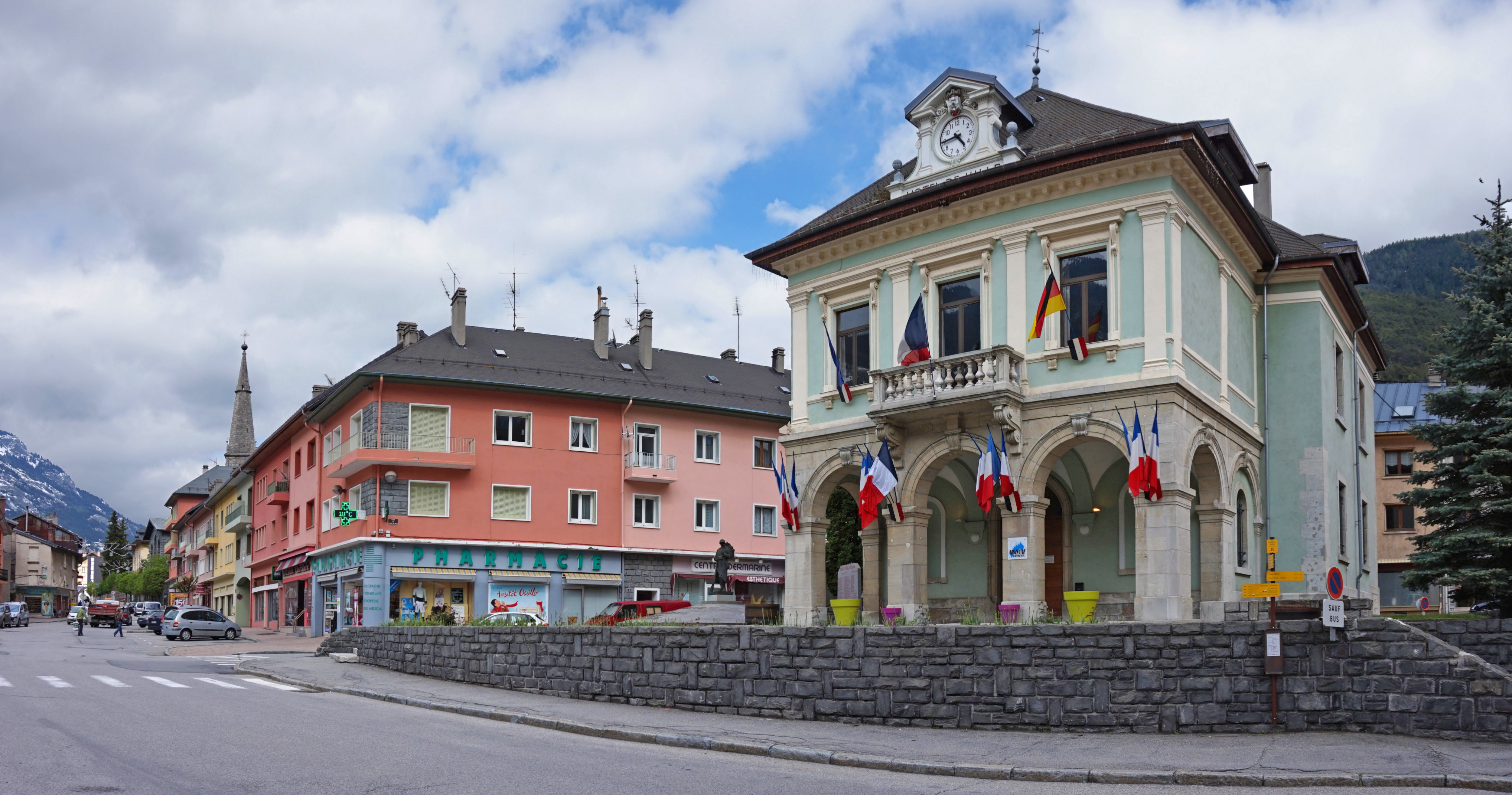 Place de l'Hôtel de ville, Modane.This photograph was taken with a Sony ILCE-5000